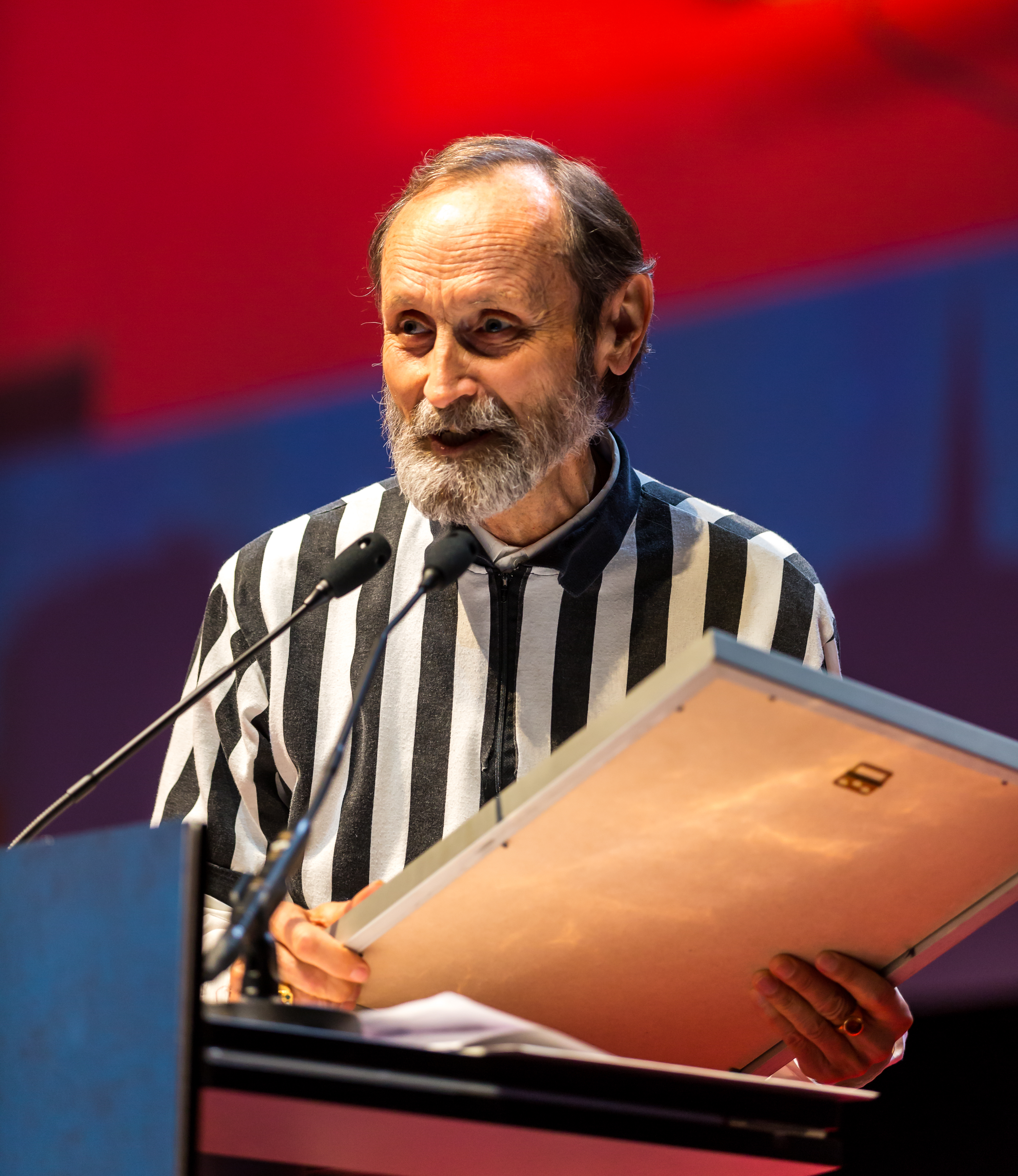 Walter Day at the Hugo Award Ceremony at Worldcon 75 in Helsinki.